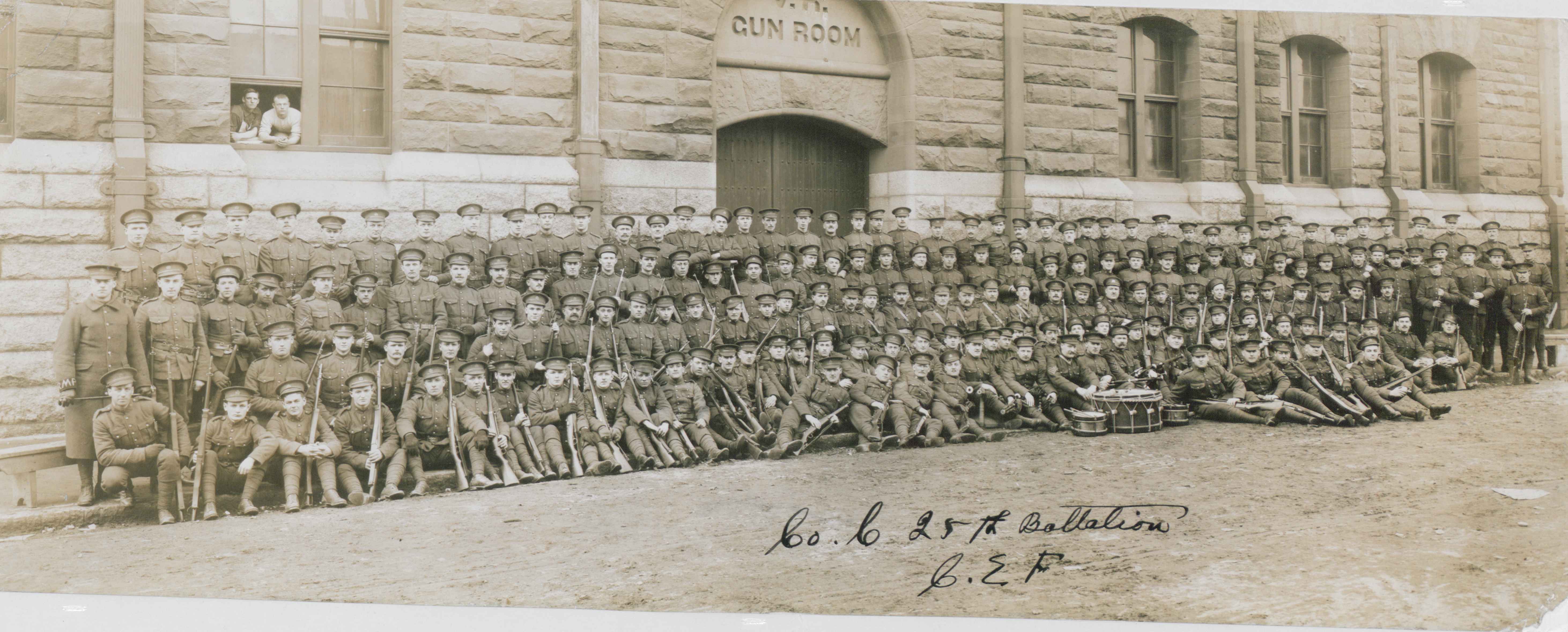 Original caption: “Company C 25th battalion Canadian Expeditionary Force.”